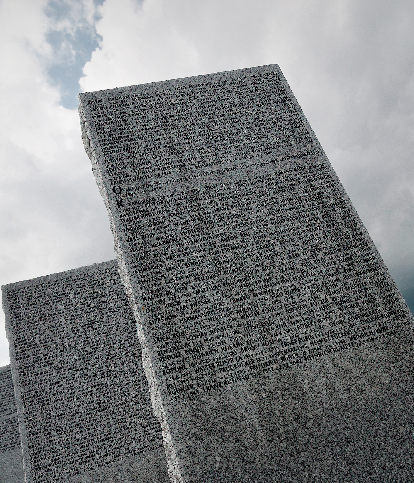 Bartosze close Ełk - the German soldiers cemetery killed during The First and The Second World War - May 2016